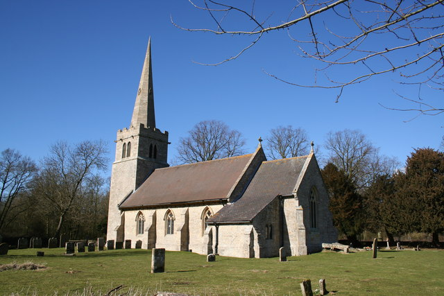 St.Hibald's church, Ashby-de-la-Launde, Lincs.